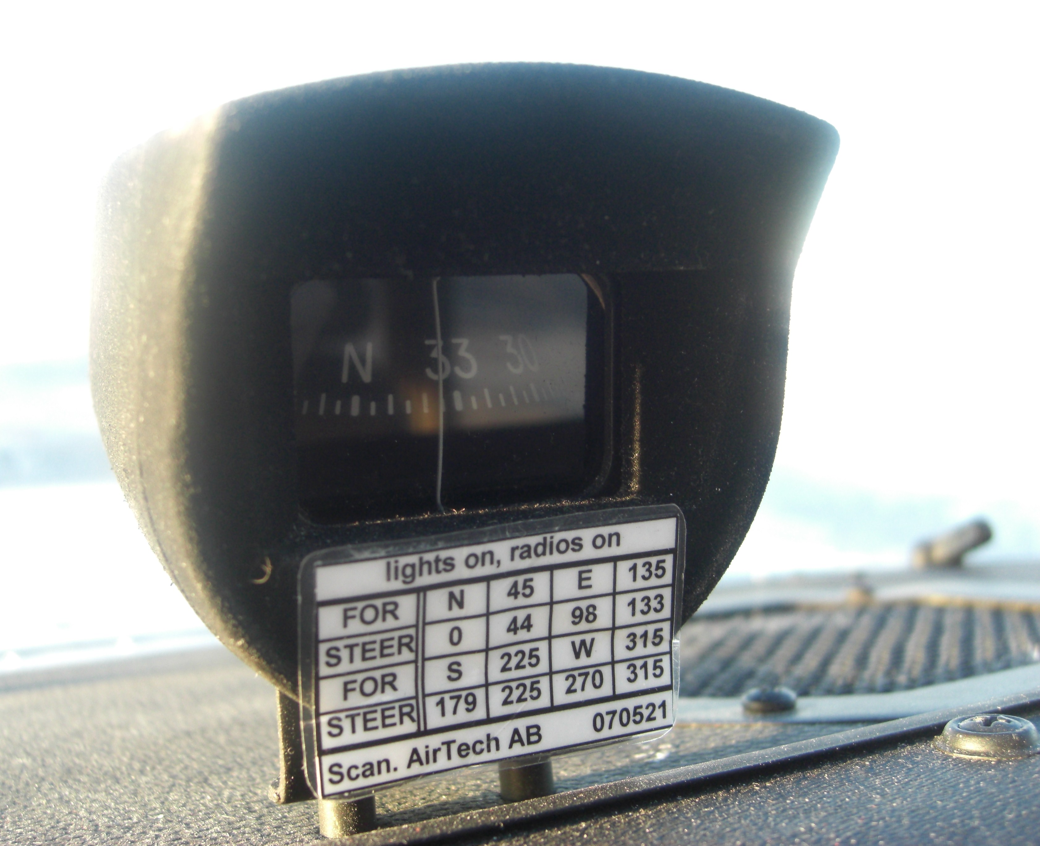 Airplane compass mounted ontop of the dashboard on a C172 inflight. Table of devation below compass.